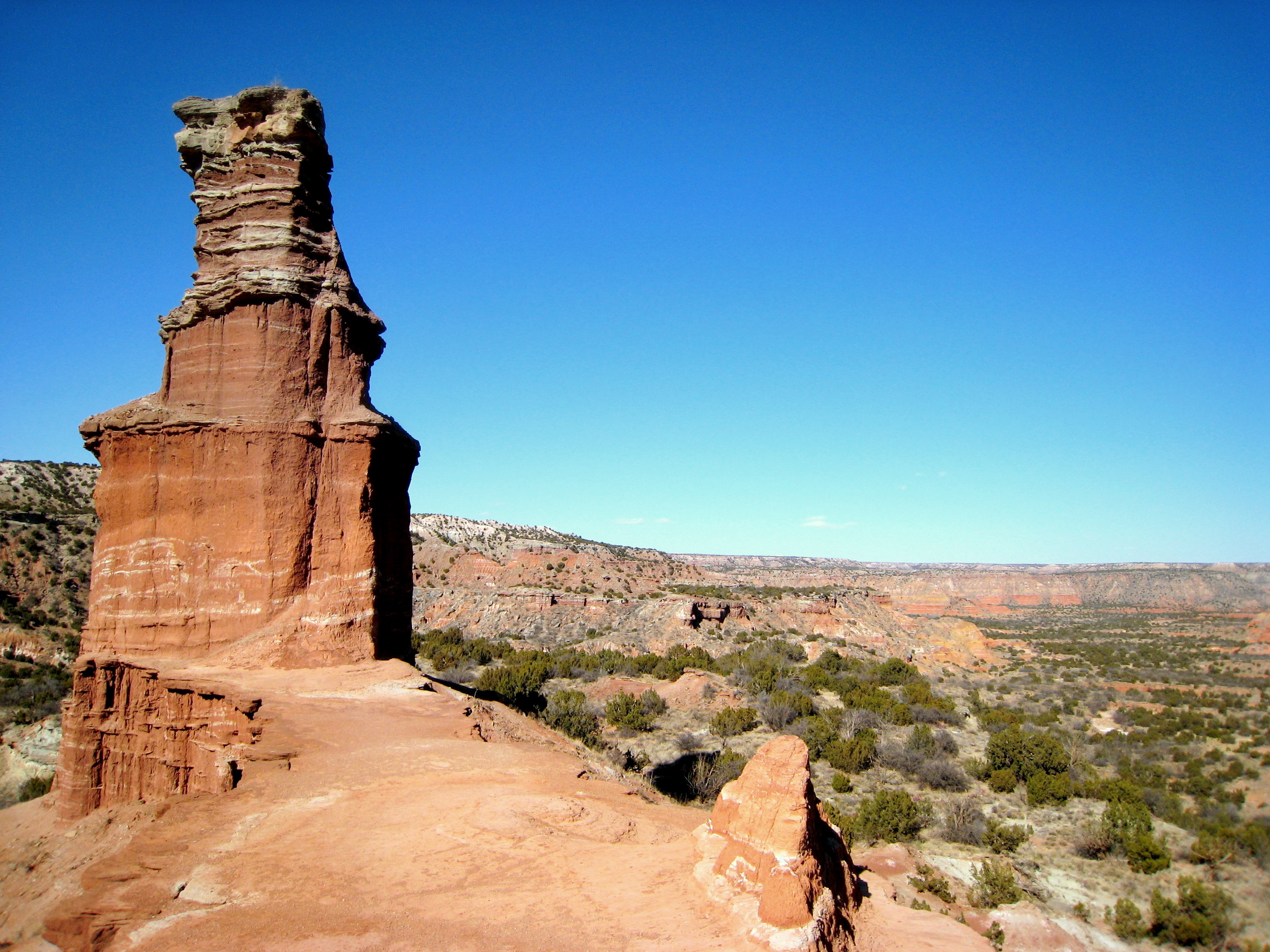 The Lighthouse. The Lighthouse in Palo Duro Canyon, Palo Duro State Park.